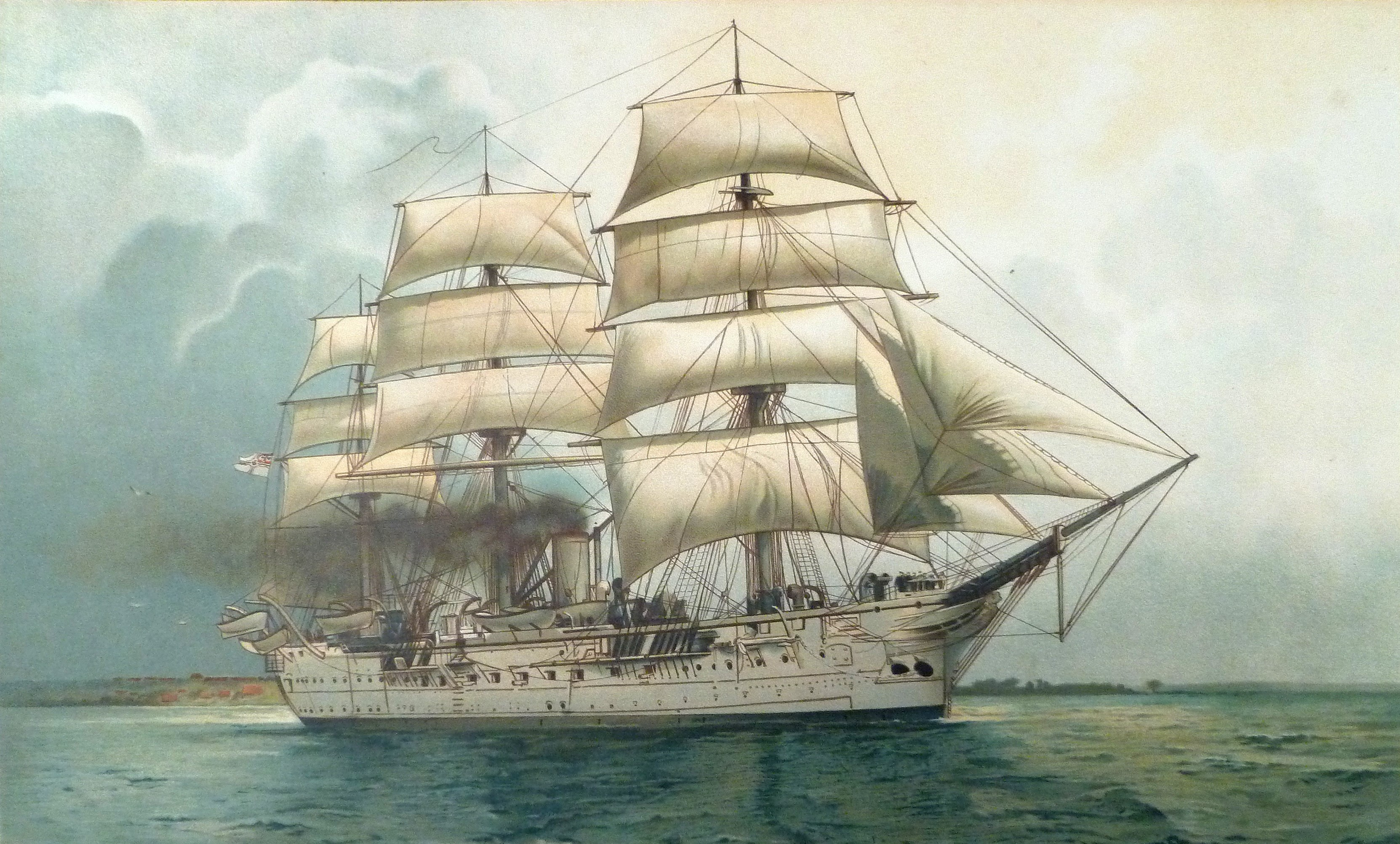 S.M. Schulschiff "Stein", German naval training ship (1904)